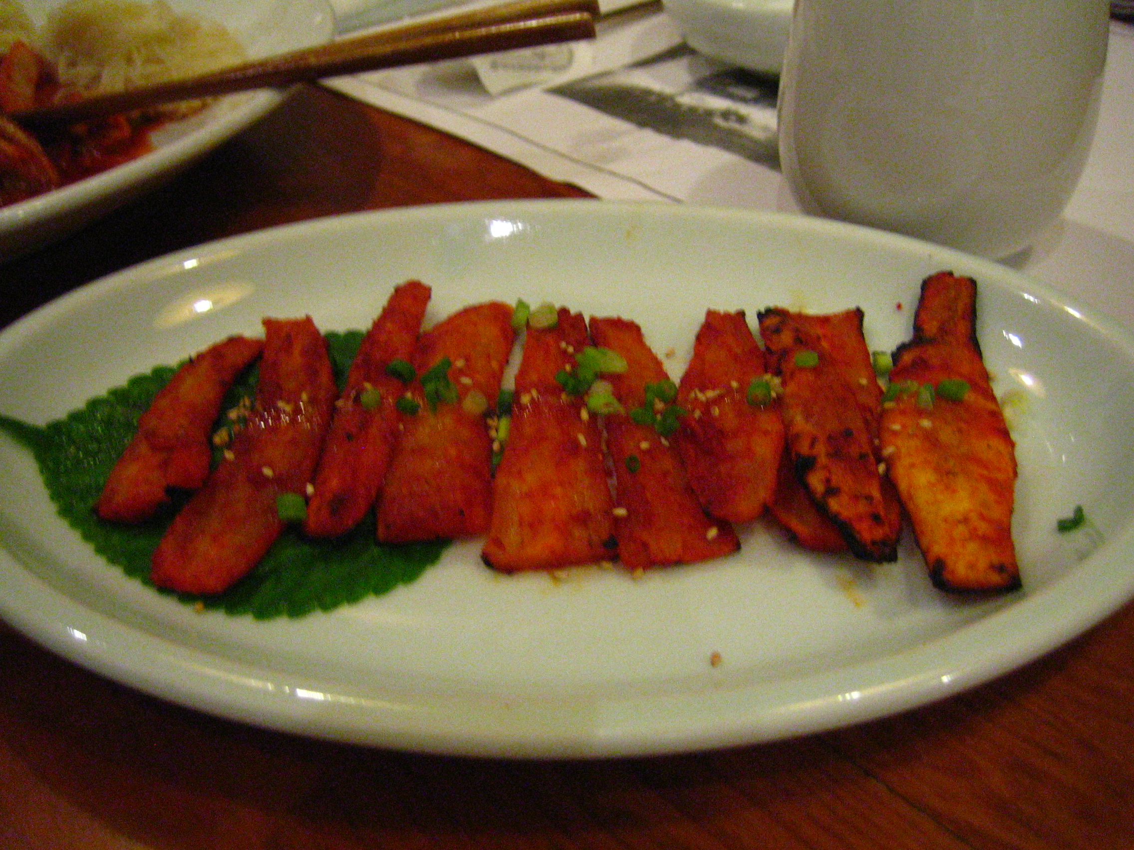 Deodeok gui, deodeok (a kind of root) marinated in gochujang sauce and grilled on charcoal.